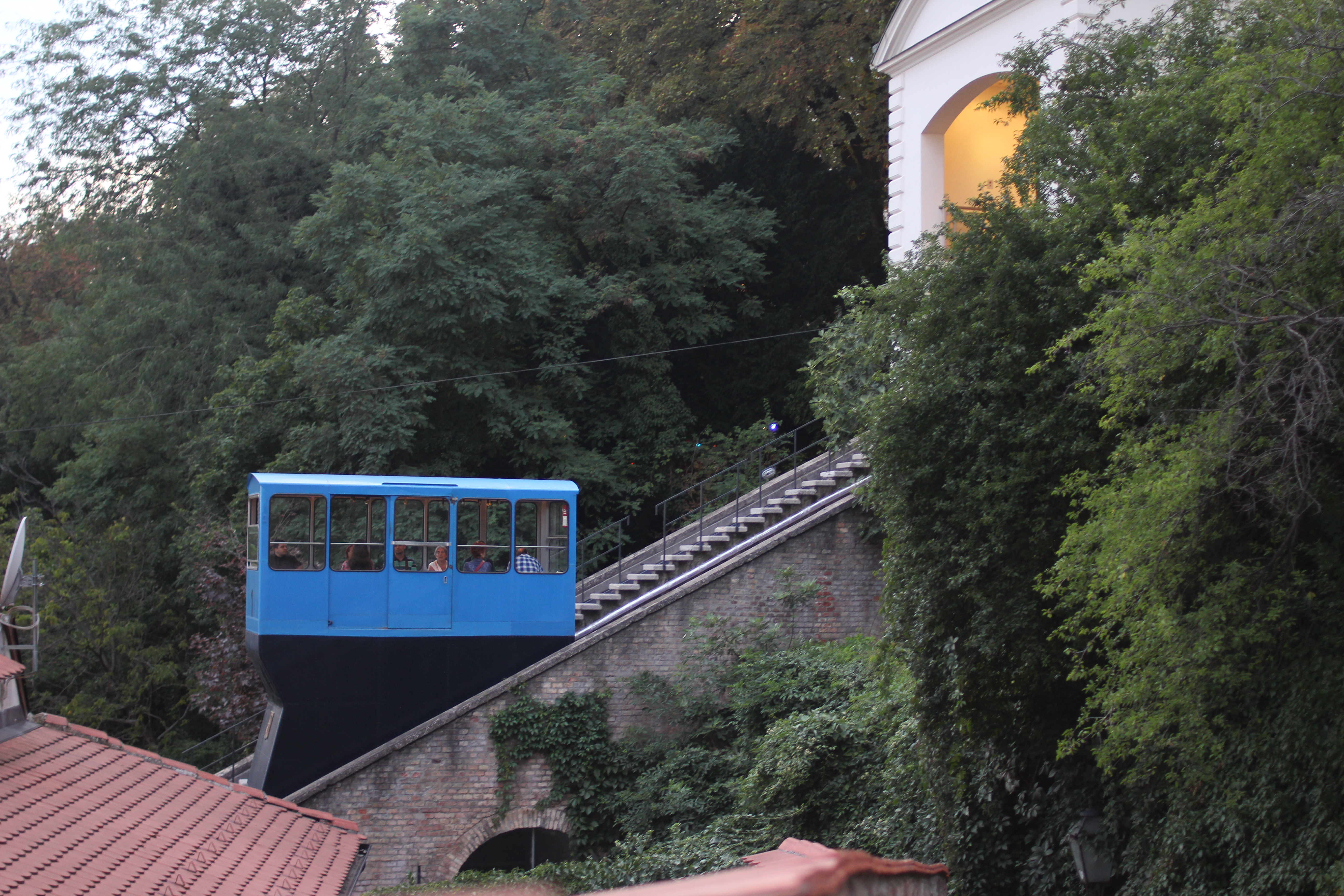 Zagreb funicular from the side.